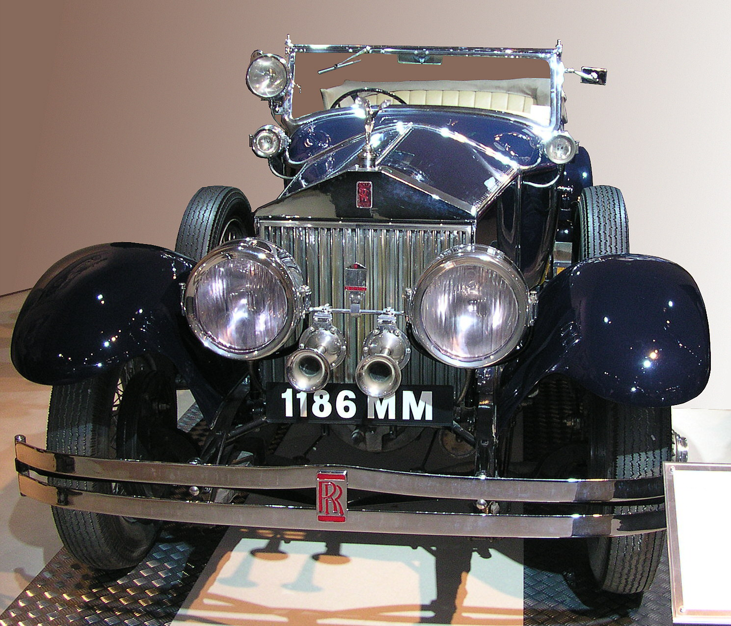 Essen Techno-Classica 2007, Rolls-Royce Silver Ghost Pall Mall Torpedo Tourer Brewster New York 1923